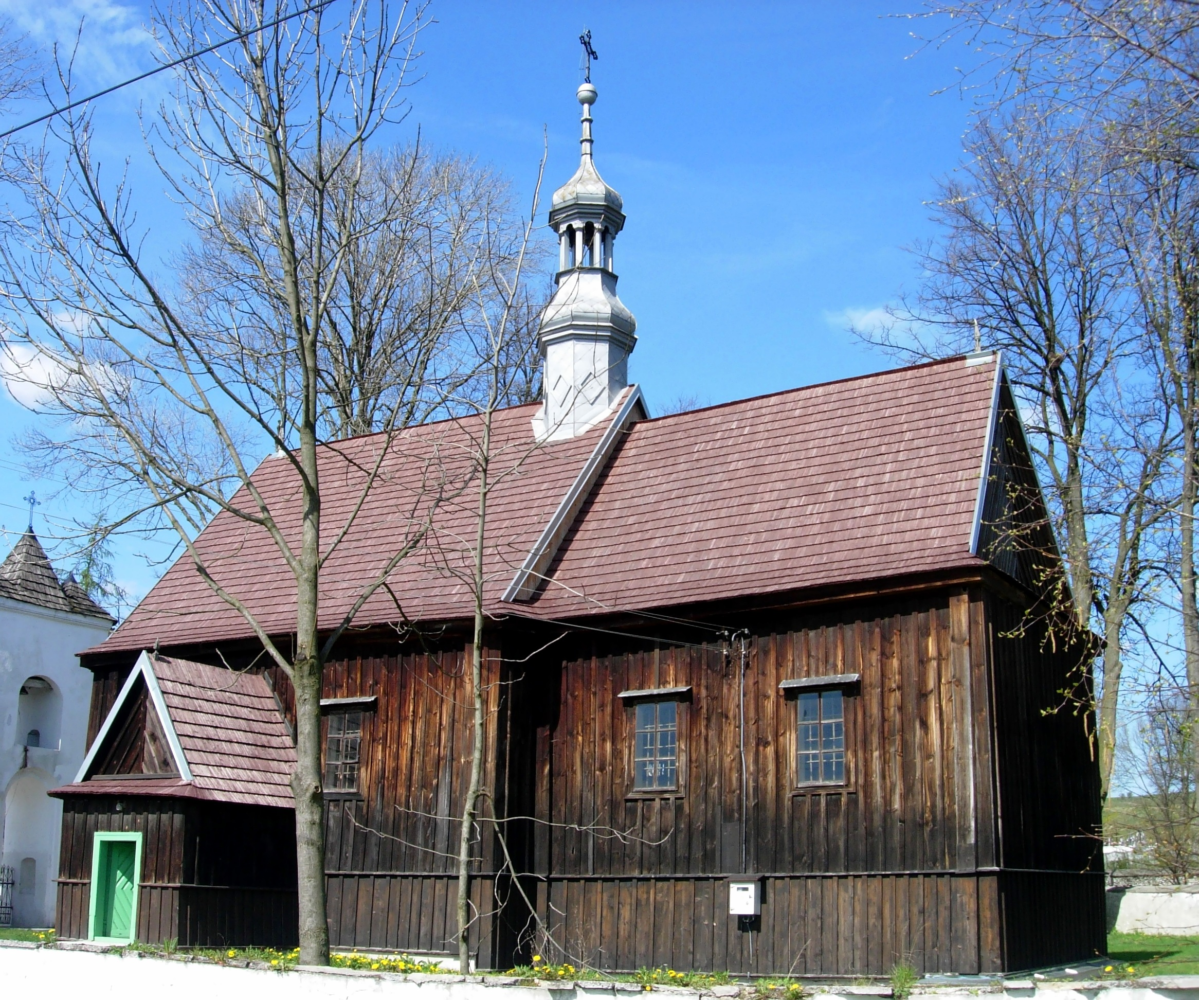 The wooden church of Saint Mary Magdalene in Chomentów, Poland